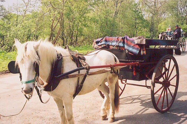 Jaunting cars in Killarney National Park. These jaunting cars take passengers between Ross Castle and Killarney through the wooded parkland. Geographical data: Subject Location Irish: V 95 88 [1000m precision] WGS84: 52:2.3362N 9:31.4394W